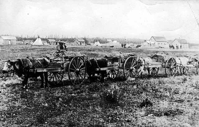 Ox cart train at Fort Smith near Edmonton, Alberta